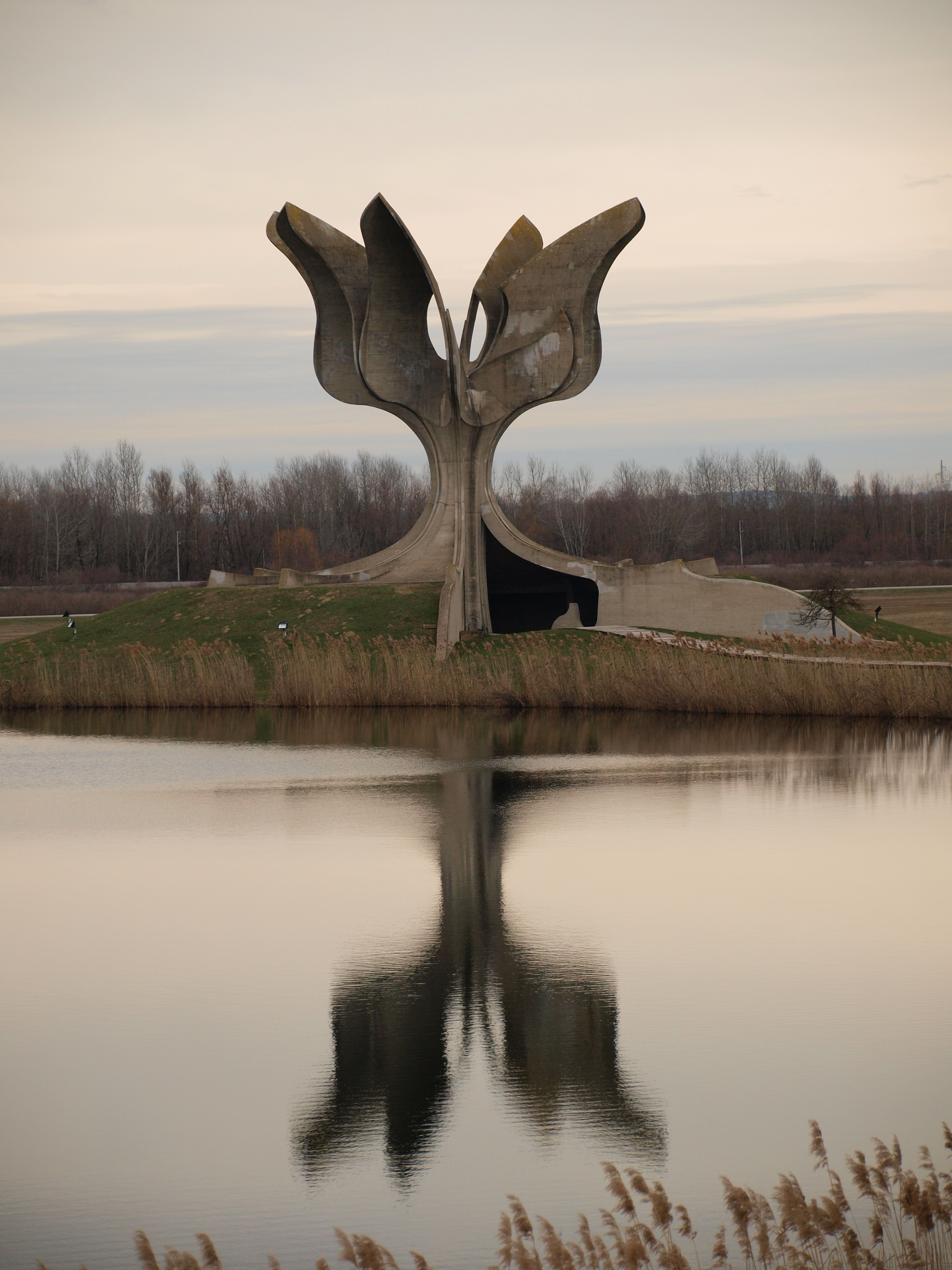 Monument to Jasenovac concentration and extermination camp.